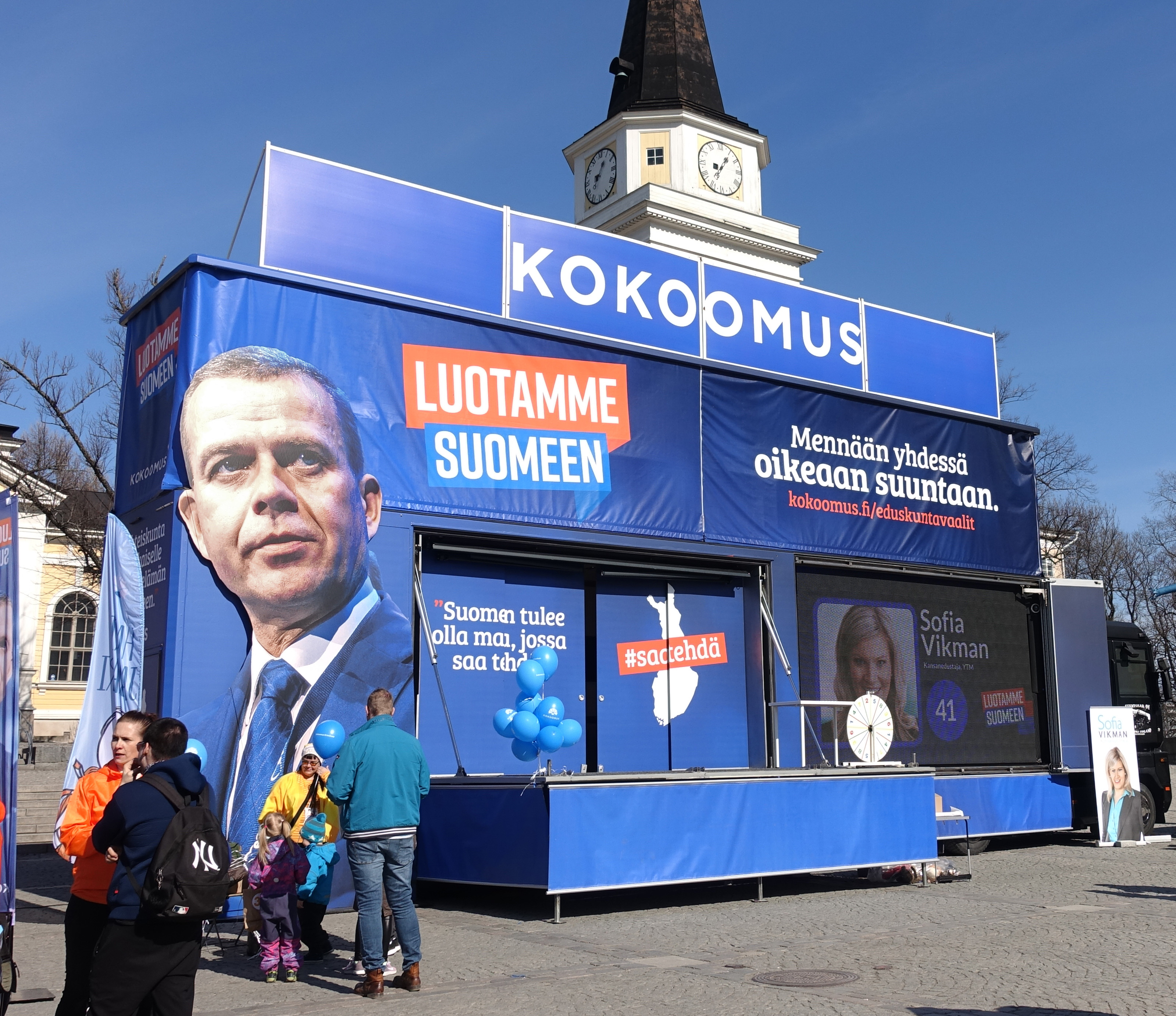 National Coalition Party in Keskustori, Tampere.